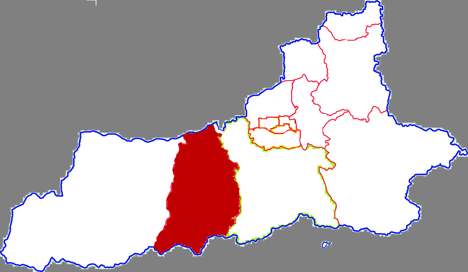 Location of Hu county in Xi'an city, China